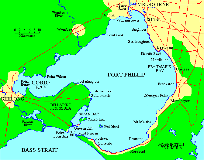 Taken from map by Adam Carr